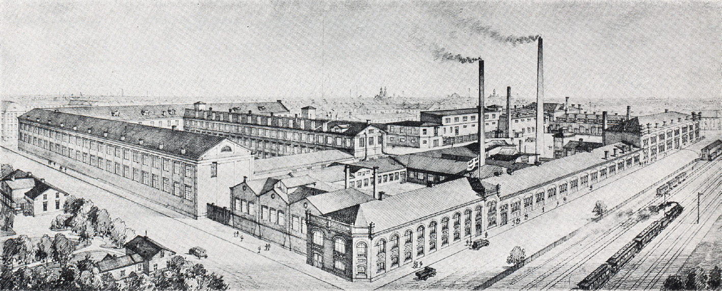 Overview of Öbergs & Co factory in Eskilstuna